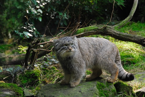 the manoel, wild cat in Blijdorp Zoo